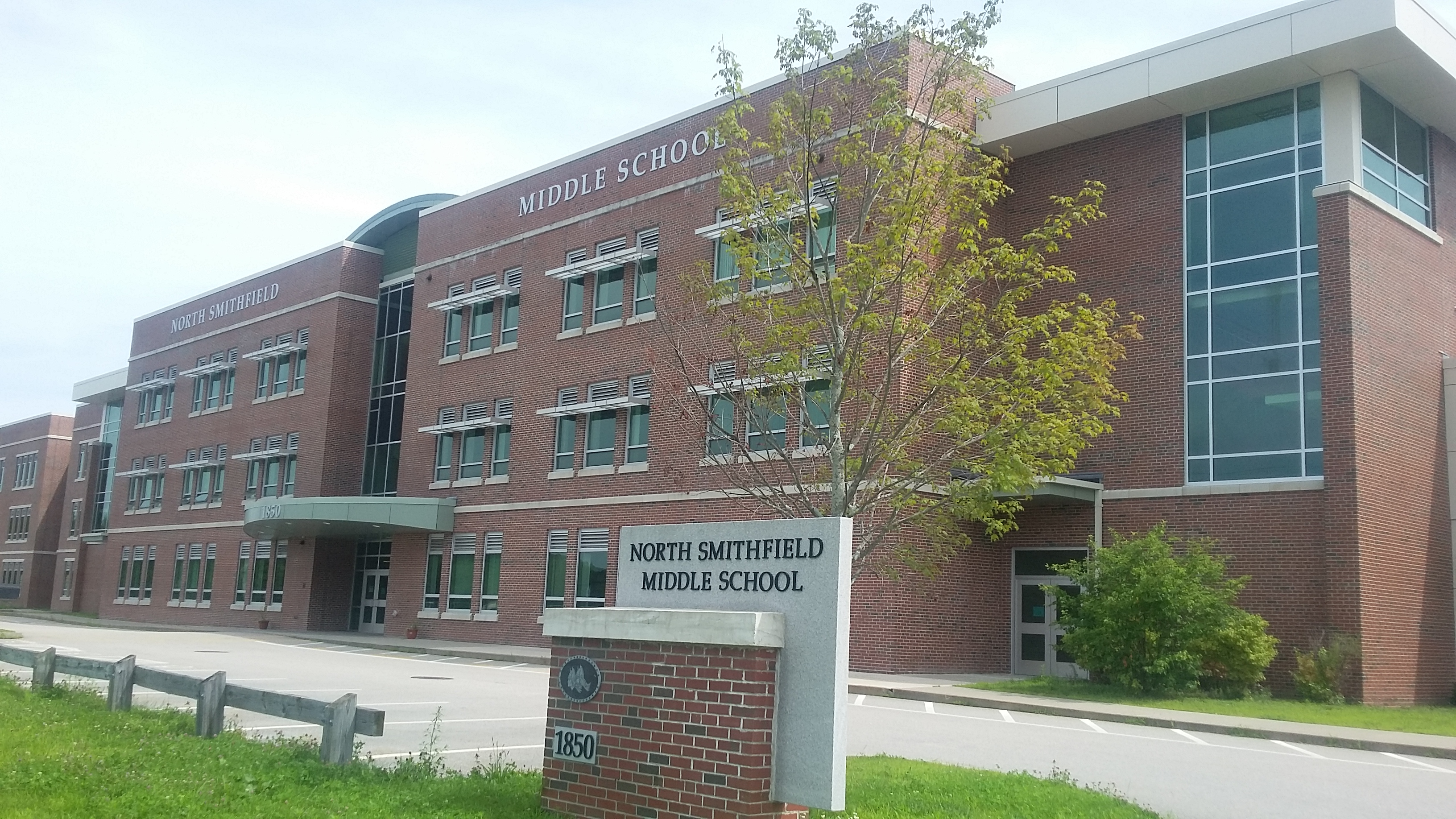 North Smithfield Middle School 2017 Rhode Island